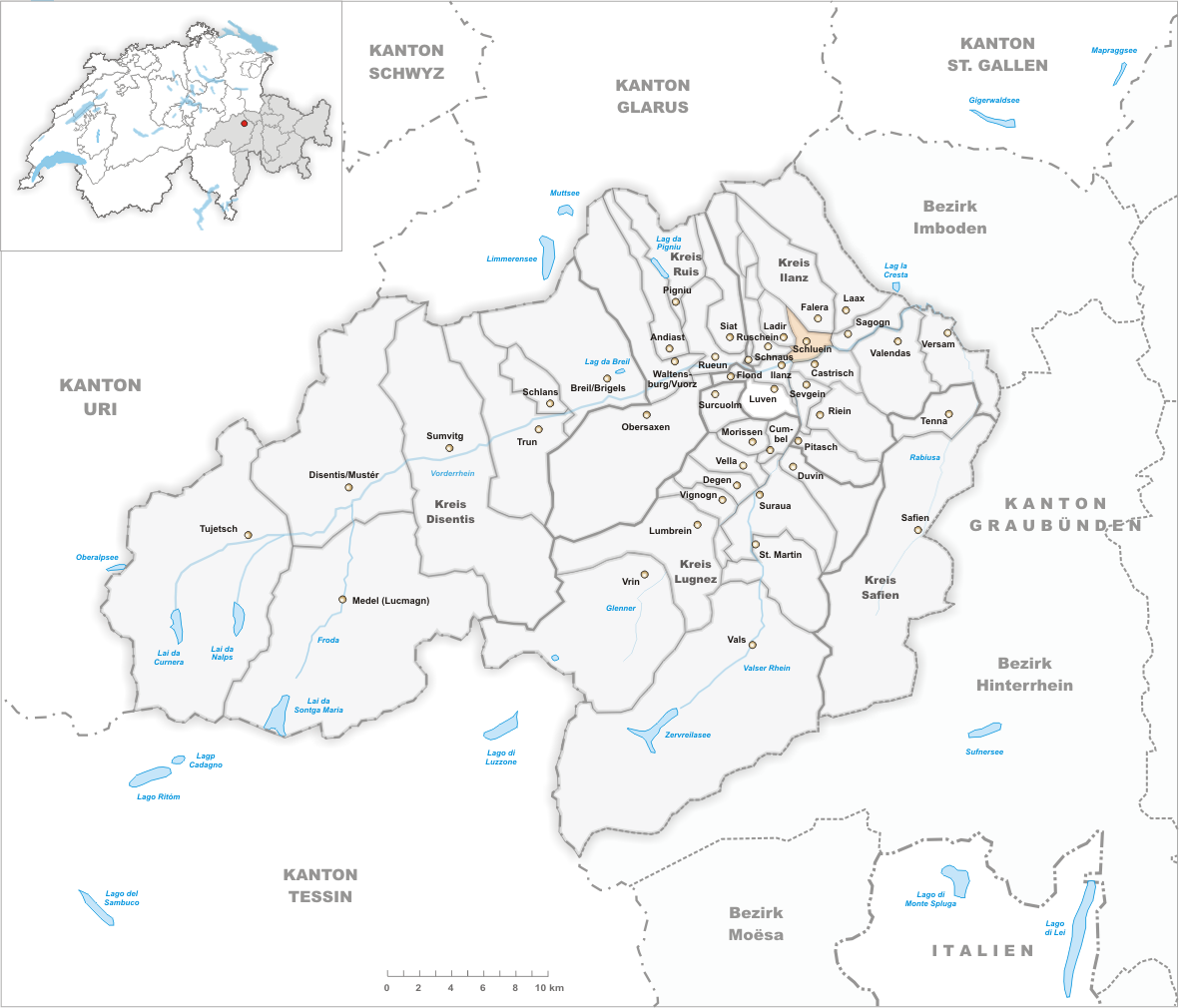 Municipality Schluein